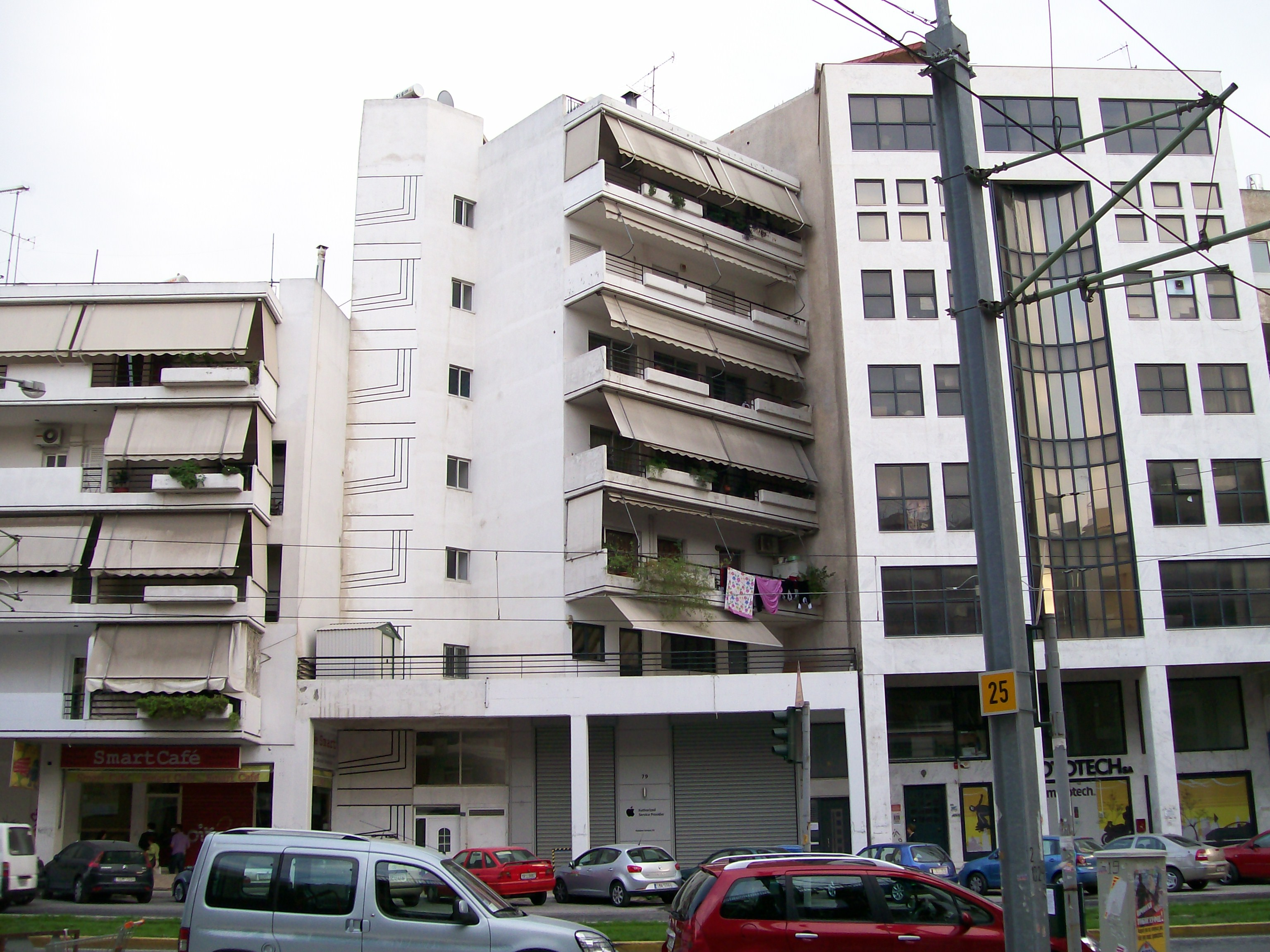 Buildings along main roadway in Neos Kosmos, Athens, Greece.